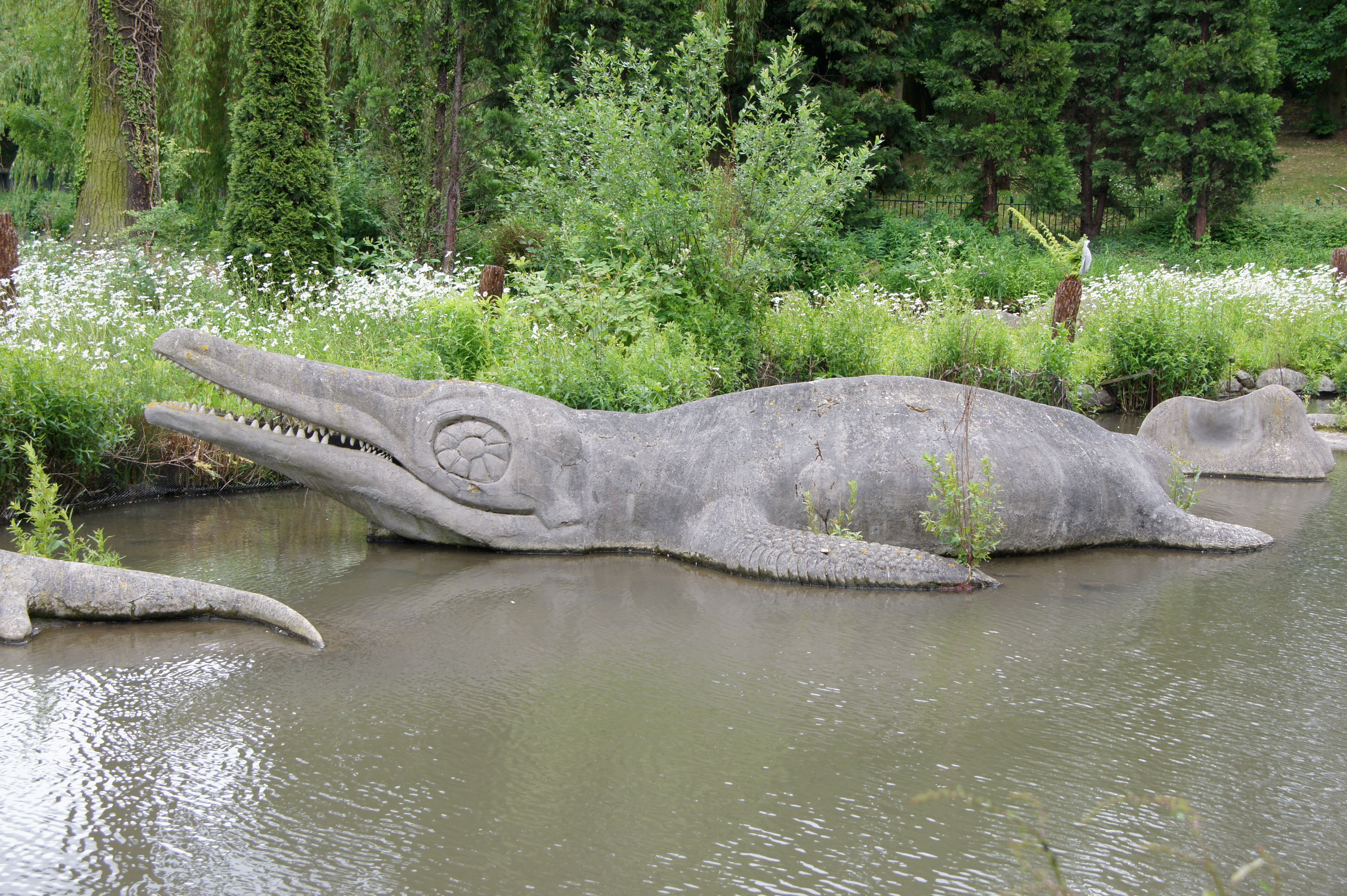 The dinosaur park created by Benjamin Hawkins. The statues are now all Grade 1 listed, and have been recently restored. Best to read